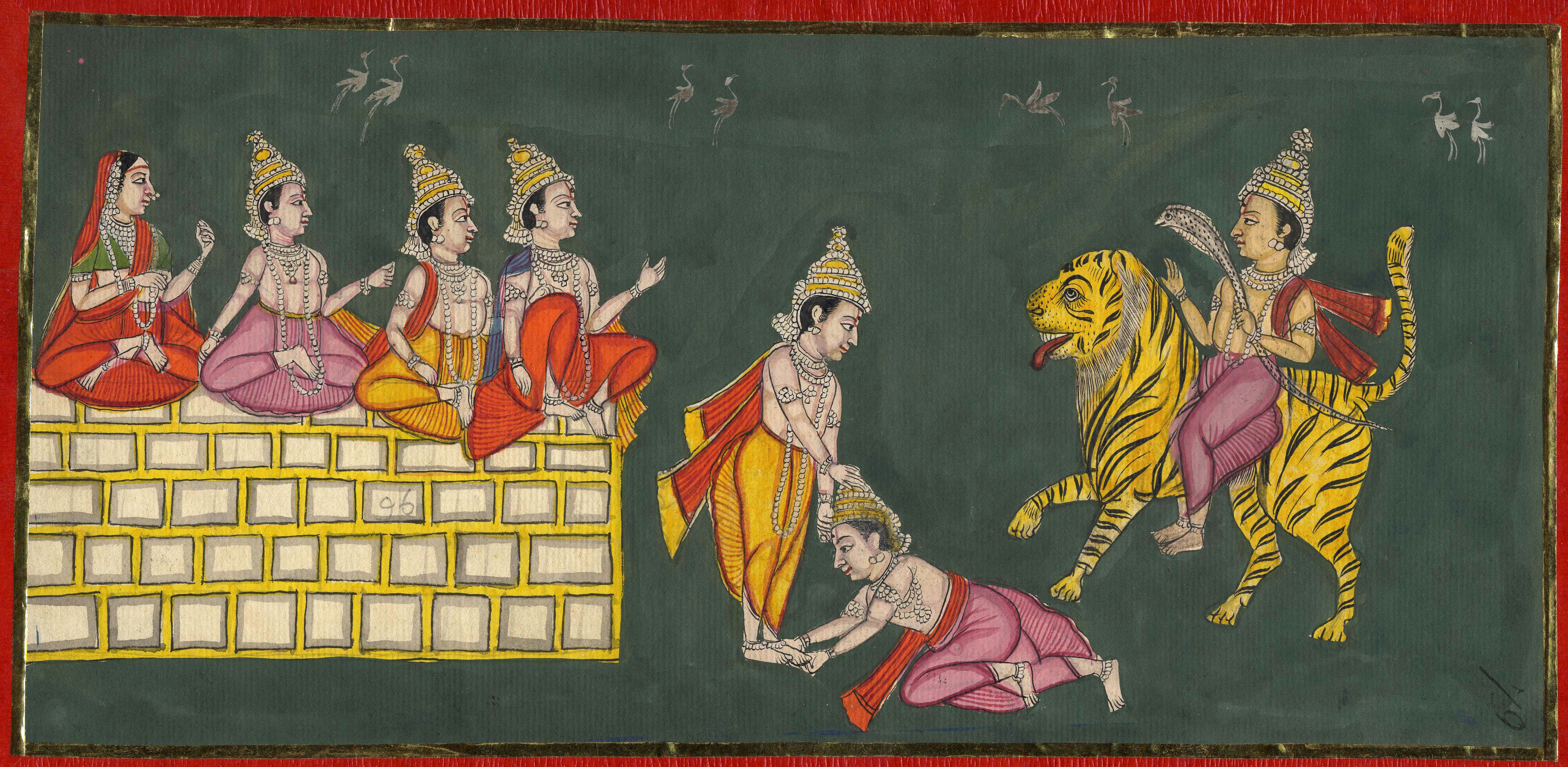 "Gouache painting on paper. A miracle performed near Poona by Nanesvara" (from the left) Muktabai, Sopan, Dnyaneshwar (Nanesvara) and Nivrittinath seated on the flying wall greet Changdev seated on a tiger. In the centre, Changdev bows to Dnyaneshwar.